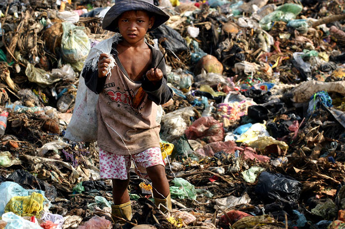 Child scavenging in a dump in Cambodia.